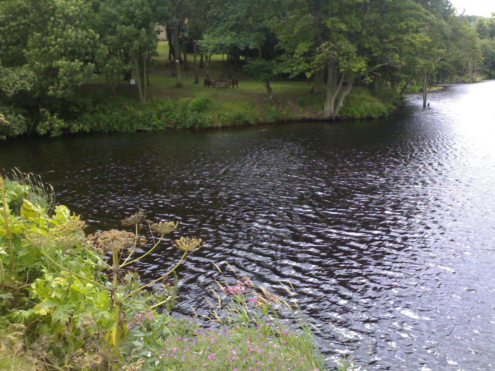 The mouth of the River Leven as it joins the River Tees. The far bank is Levendale